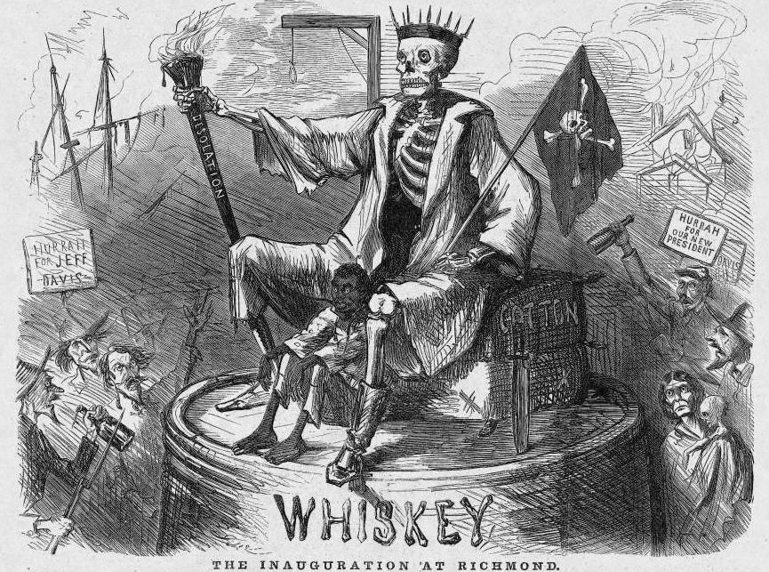 Political cartoon satirizing the inauguration of Jefferson Davis as President of the Confederate States of America. From Harper's Weekly, 8 March 1862. Davis is caricatured as a crowned skeletal personification of death, holding a pirate flag in one hand and a torch labeled "DESOLATION" in the other, with a slave seated between his feet. He is seated on a throne of cotton bales atop a huge whiskey barrel. Around him drunken men toast him, with signs reading "Hurrah for Jeff Davis", "Hurrah for Our New President". Beside is a gaunt mother with holding a baby, both looking like they suffering from starvation. In the background are ship masts falling to ruin, houses burning, and a great gallows. Original Caption: THE INAUGURATION AT RICHMOND "Fellow Citizens! On this the Birthday of the Man most identified with the establishment of American Independence, and beneath the Monument erected, &c. &c. &c., we have assembled to usher into existence the permanent Government of the Confederate States." -- (JEFF DAVIS'S Inaugural Address at Richmond)